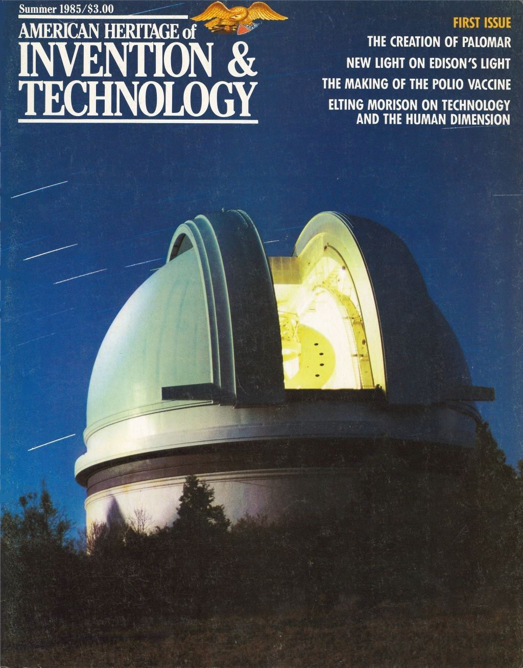 Cover of the Summer 1985 Issue of Invention & Technology